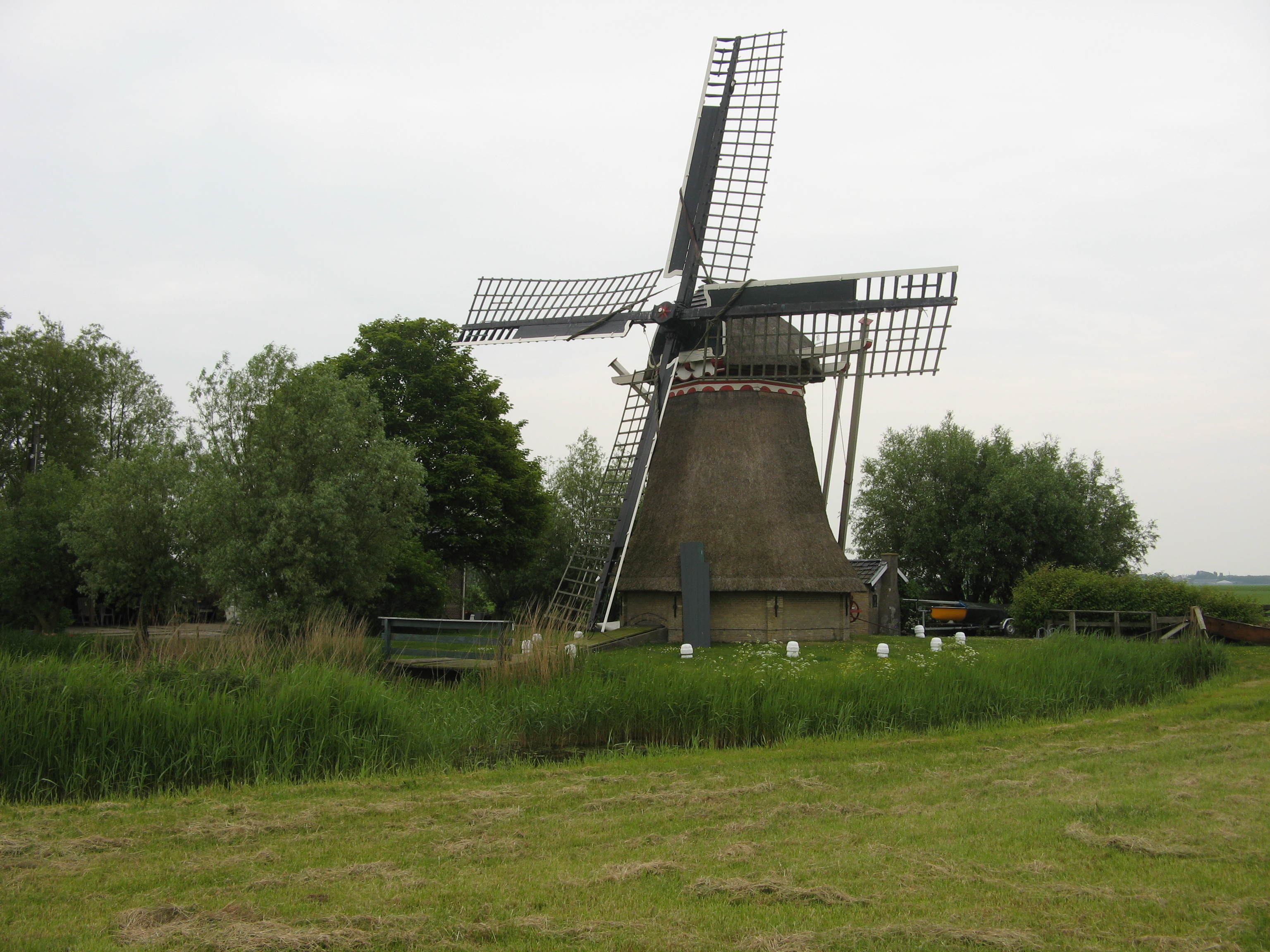 Windmill Hogebeintumermolen